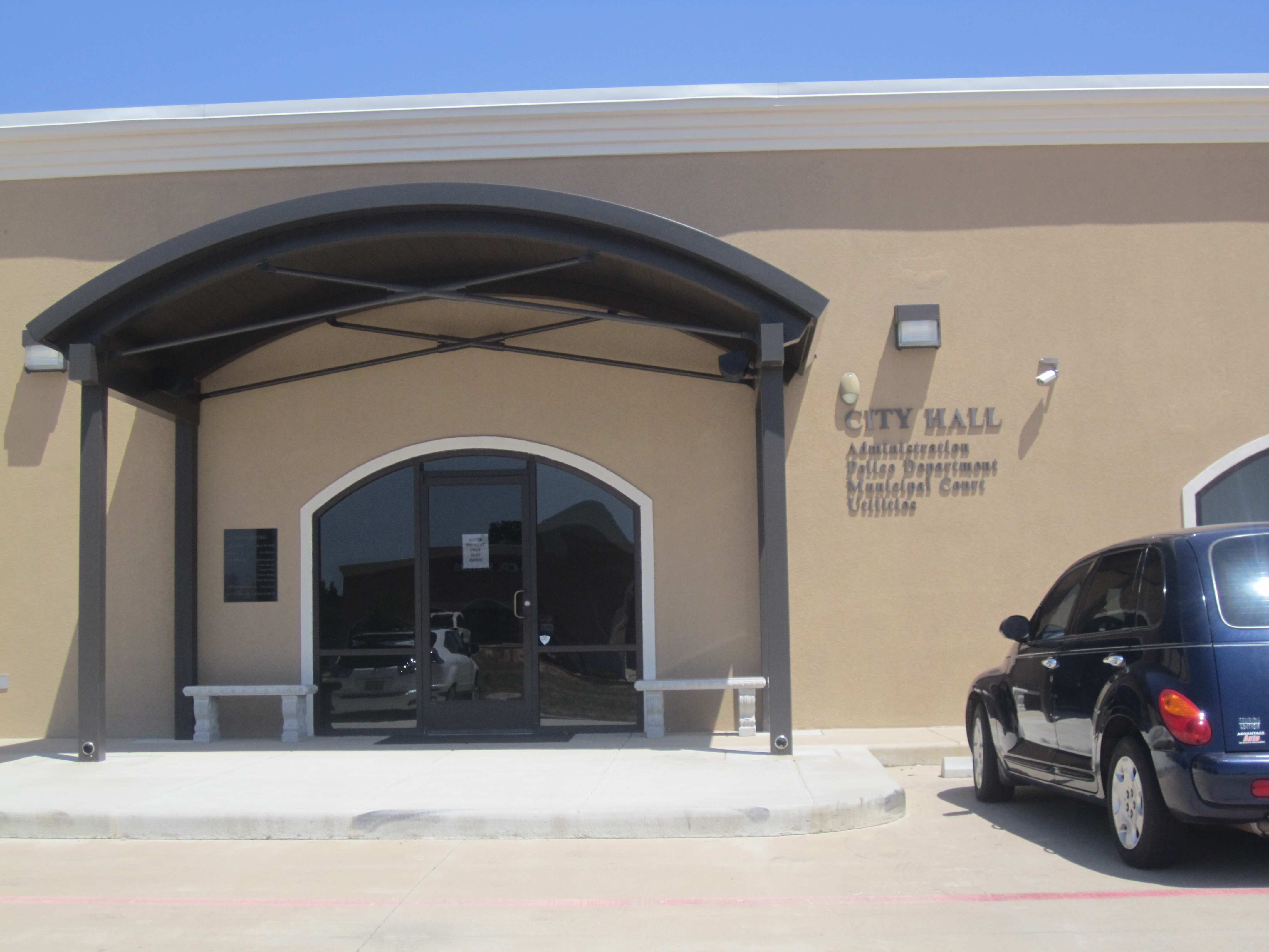 I took photo of City Hall in Lindale, TX, with Canon camera.